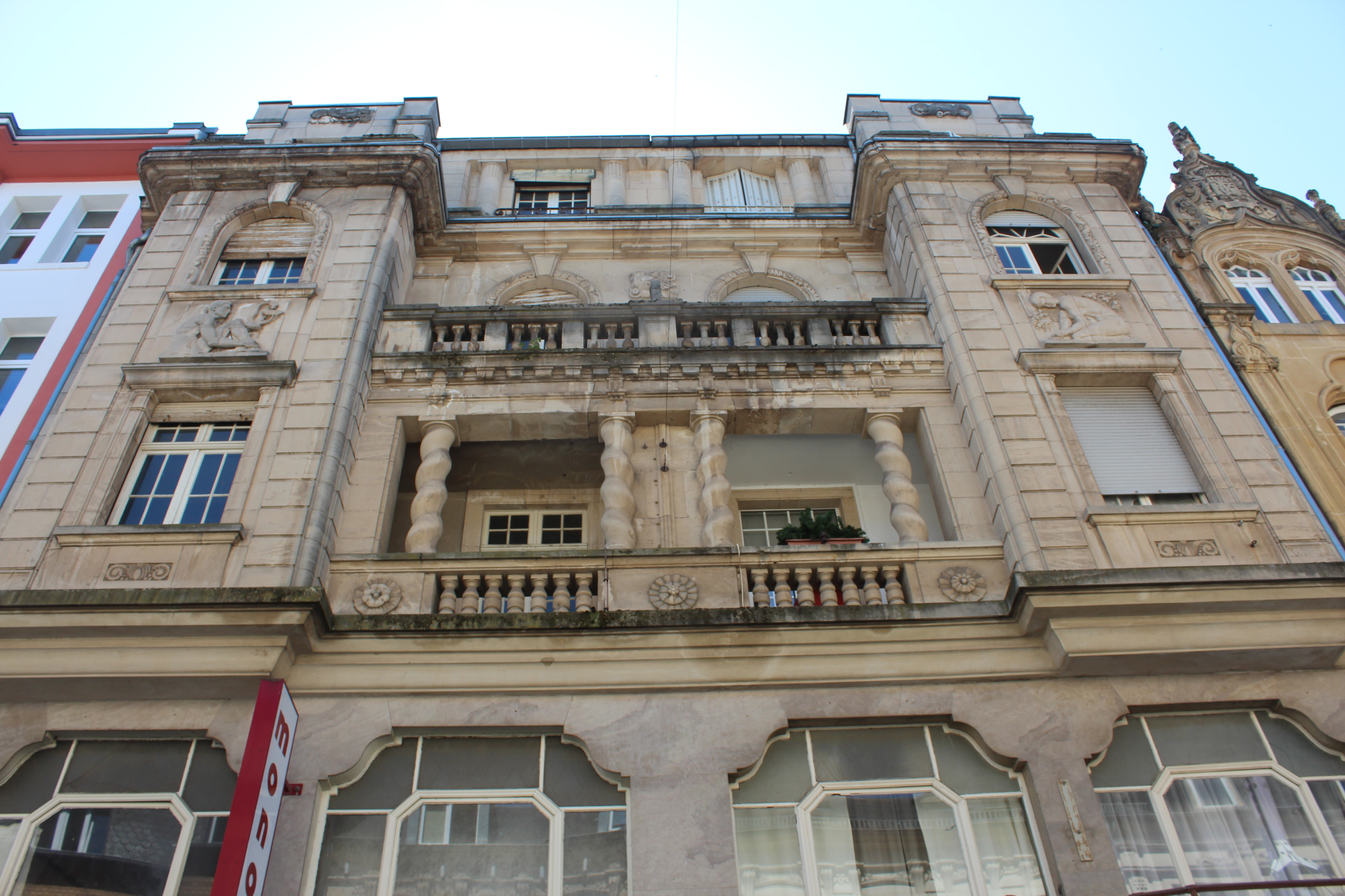 Rue de l'Alzette 53-55 in Esch-sur.Alzette